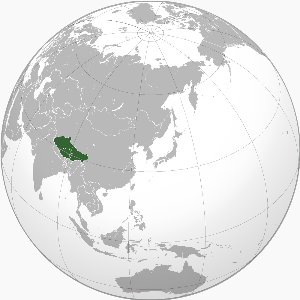 Green: Territorial status of Tibet in 1940